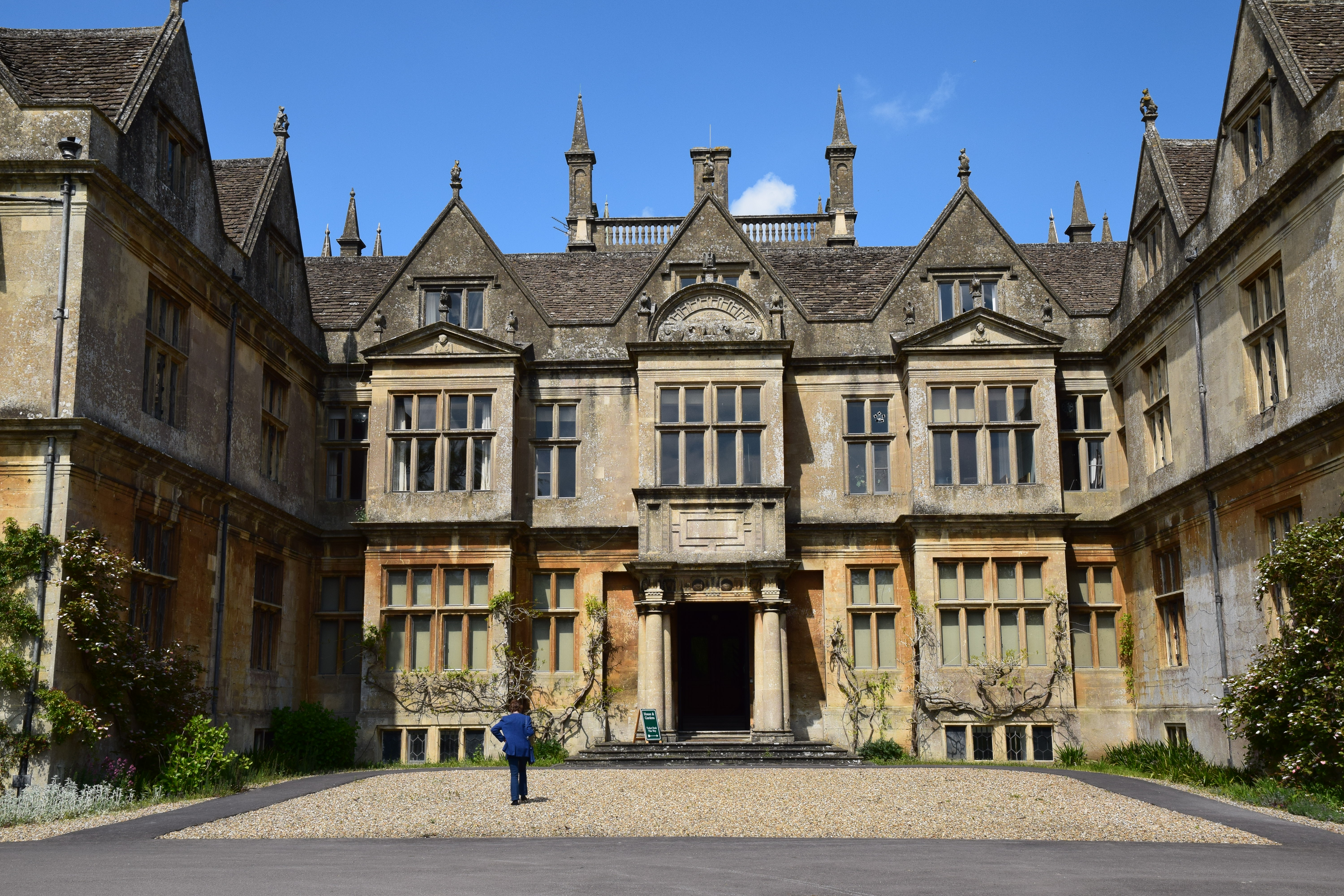 Corsham Court, Wiltshire, 5 May 2018. It originated as a Saxon Royal Manor of Ethelred the Unready. Both Catherine of Aragon and Catherine Parr were presented with the manor by Henry VIII. In 1745 the house was bought by Paul Methuen and it remains in that family. The present house was built in 1582 by John Smyth, remodelled in 1761-64 by Capability Brown (who also laid out the surrounding parkland), again in 1796 by John Nash and rebuilt in 1808 and remodelled yet again in 1844-49 by Thomas Bellamy. The House is currently the seat of the 8th Baron Methuen.